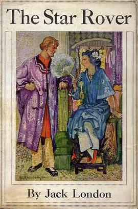 1st Edition New York cover.